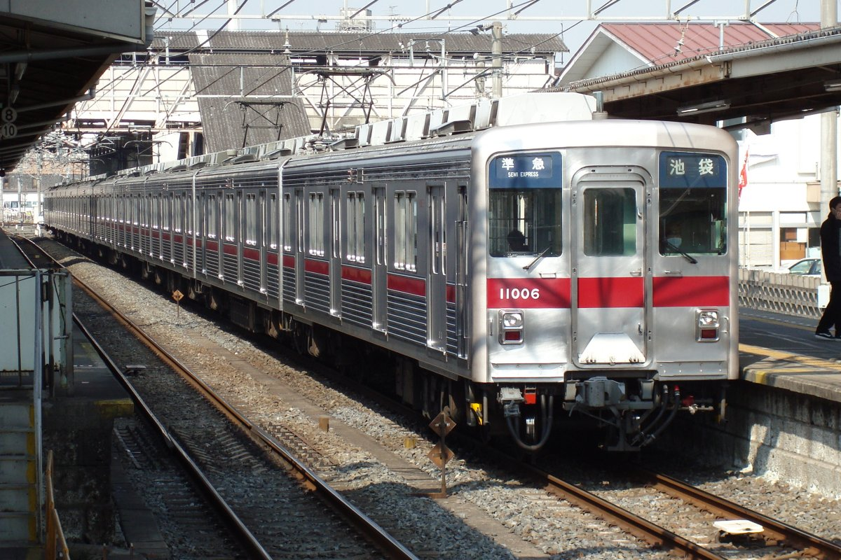 A Tobu 10000 series 10-car set 11006 at Kawagoeshi Station on the Tobu Tojo Line